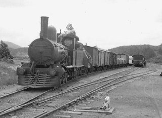 A largely unmodified C11 at the head of a down goods train, waiting to depart Zeehan during 1949. ARHS Tasmania Collection